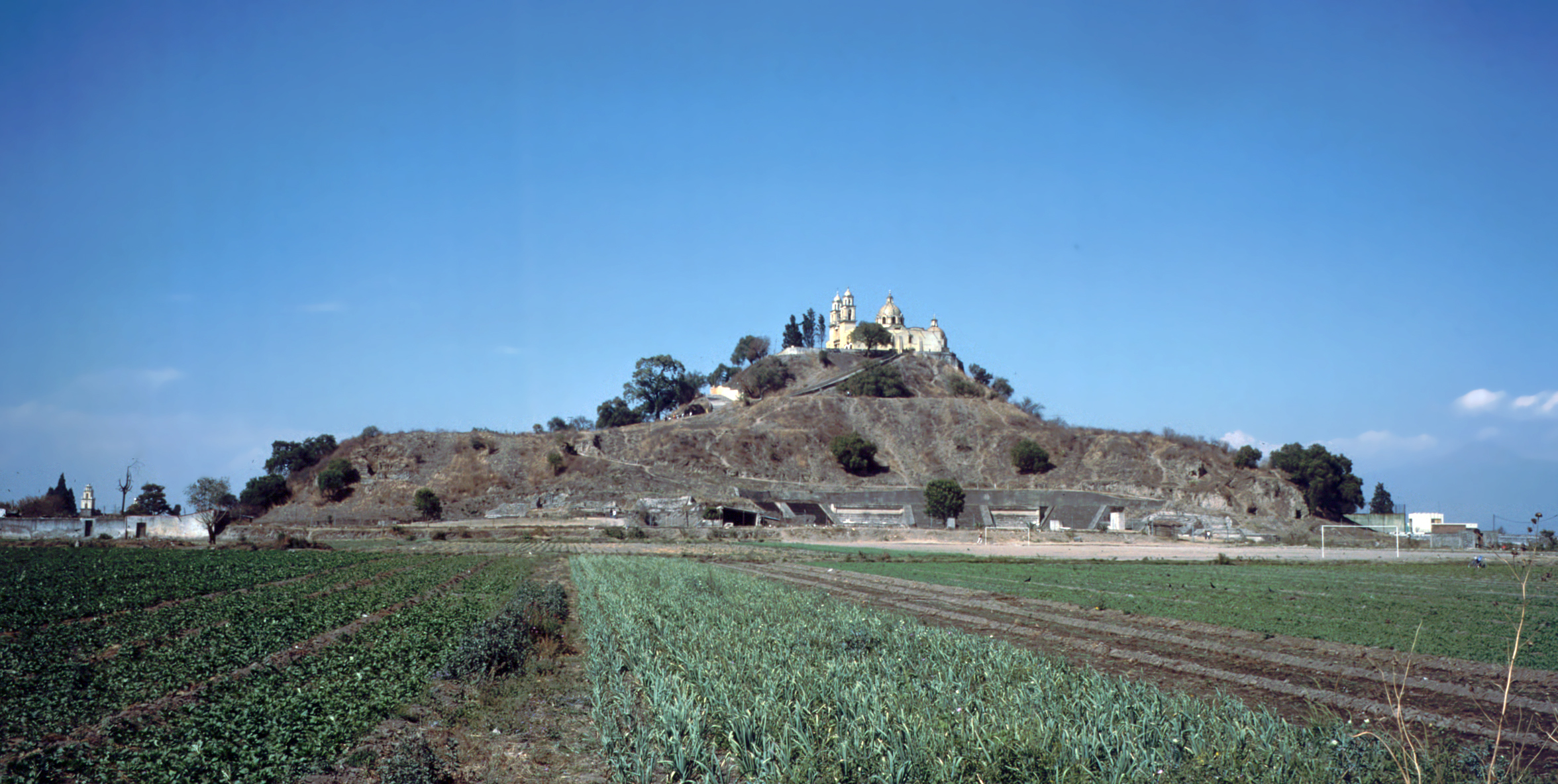 Cholula, Puebla, Mexico: Pyramid